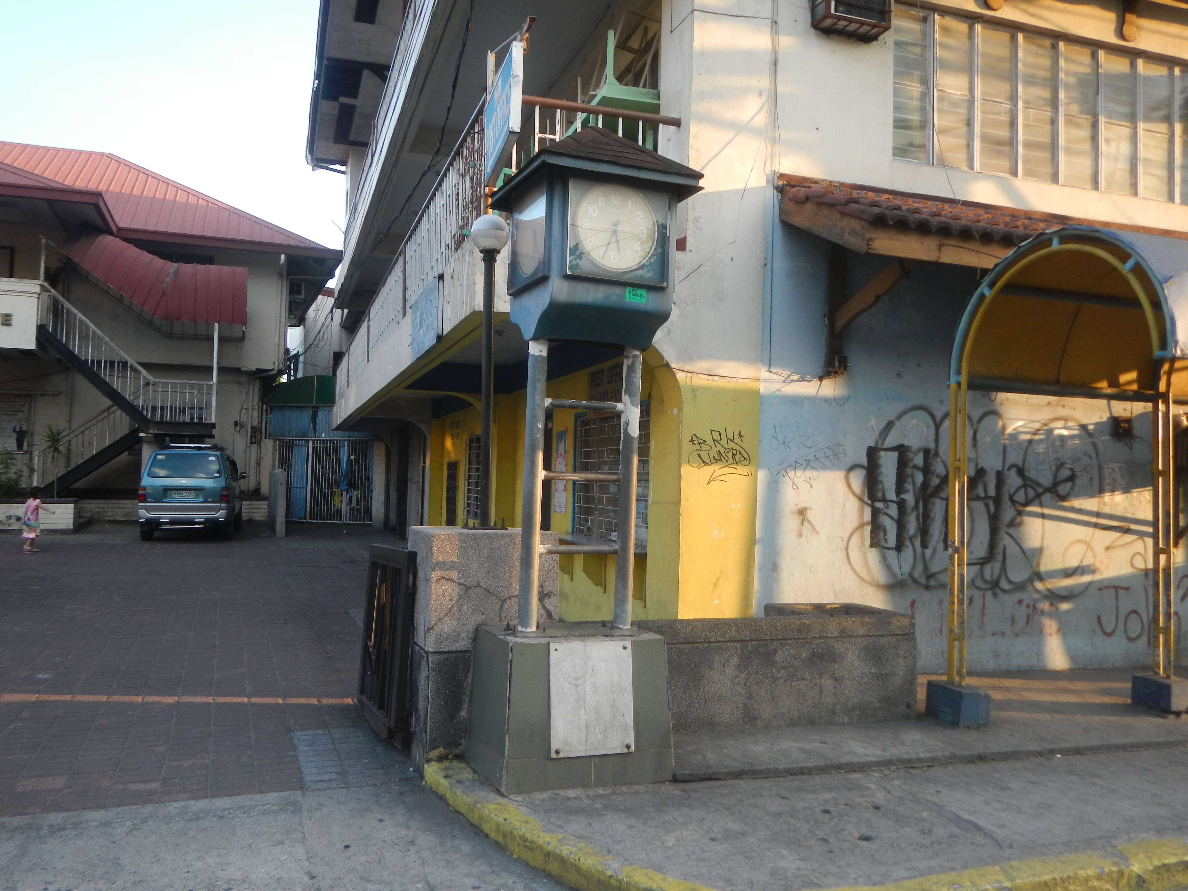 Saint Michael the Archangel Parish Church of Digman - Bacoor Parochial School of Saint Michael the Archangel; Digman, Bacoor, Cavite; Clock tower of Bacoor City General Evangelista street 14°27'33"N 120°56'49"E Barangays Poblacion 14°27'32"N 120°56'26"E Tabing Dagat 14°27'38"N 120°56'23"E Digman 14°27'41"N 120°56'32"E Bacoor City accessed from or to along General Tirona Highway corner Antero Soriano Highway Antero Soriano Highway (Centennial Road, Kawit & Imus, Cavite) (Note: Judge Florentino Floro, the owner, to repeat, Donor Florentino Floro of all these photos hereby donate gratuitously, freely and unconditionally Judge Floro all these photos to and for Wikimedia Commons, exclusively, for public use of the public domain, and again without any condition whatsoever).